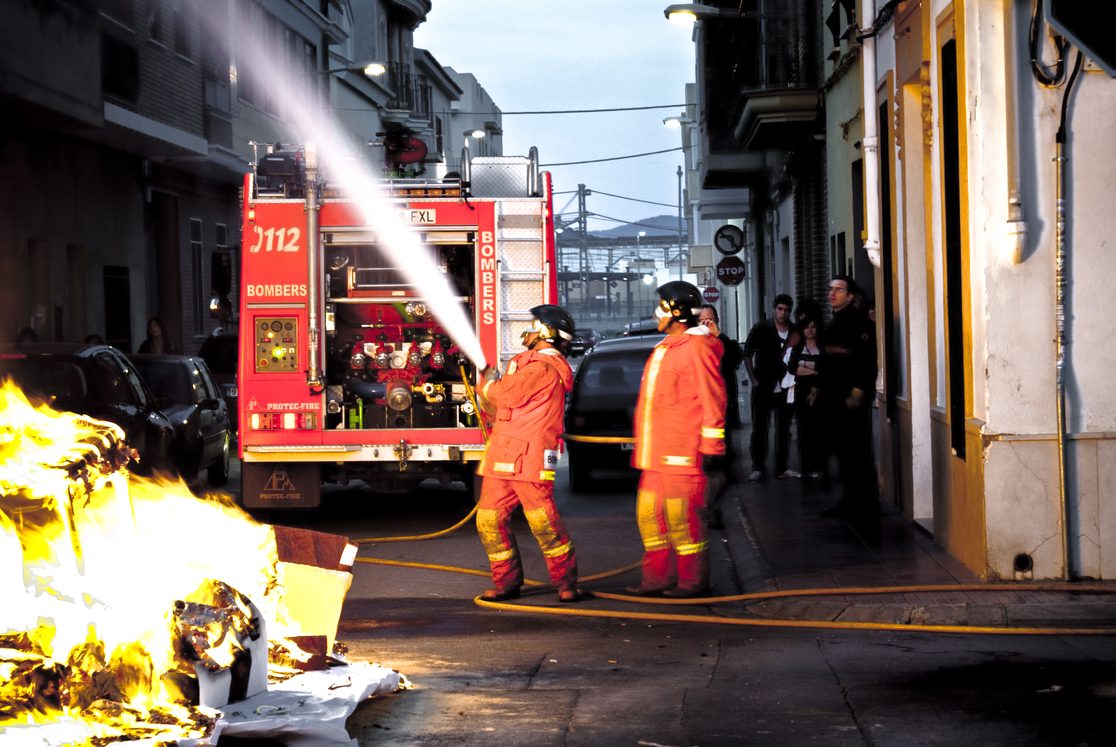 Fireman in Fallas of Puçol.